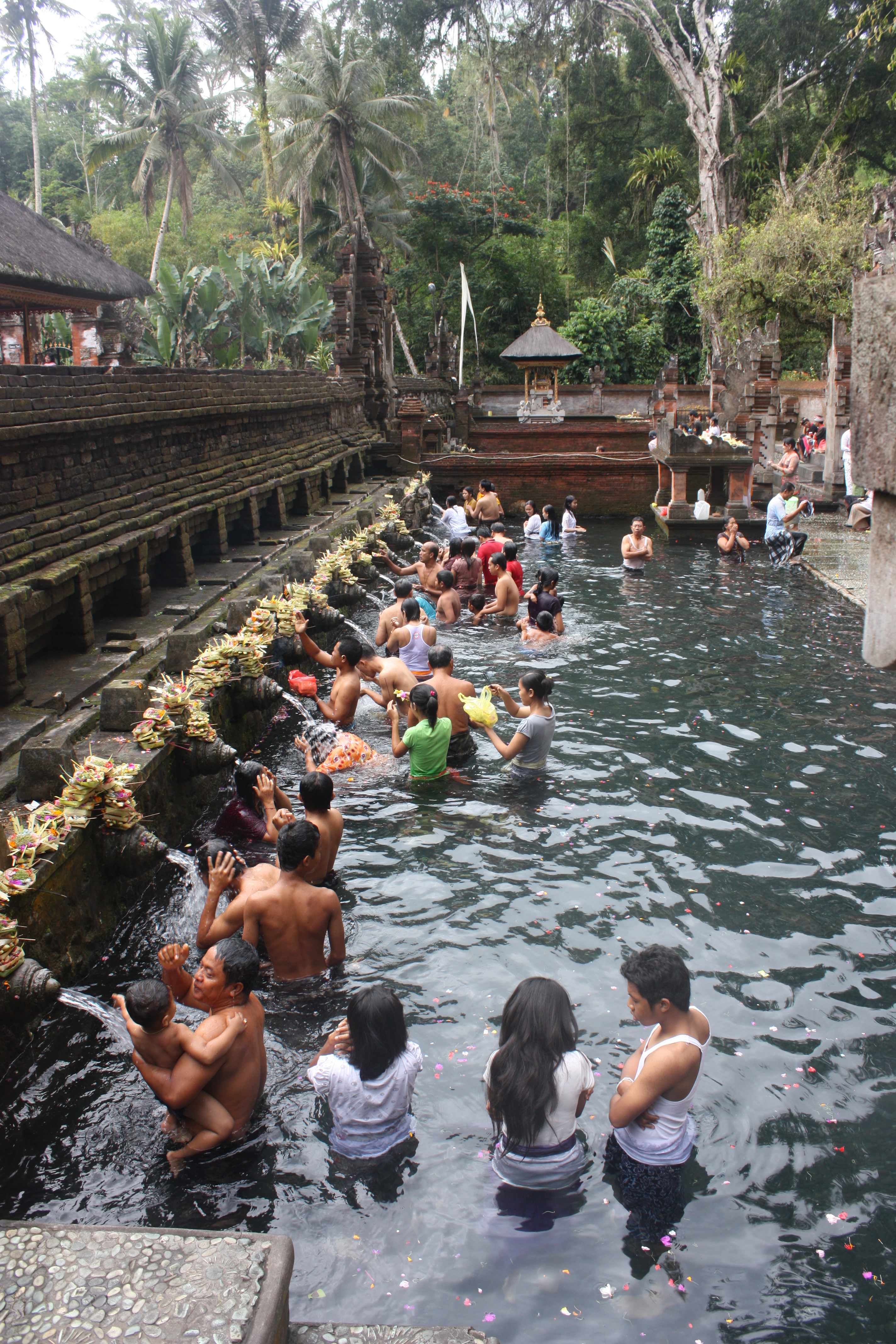 Around Ubud, Pura Tirta Empul